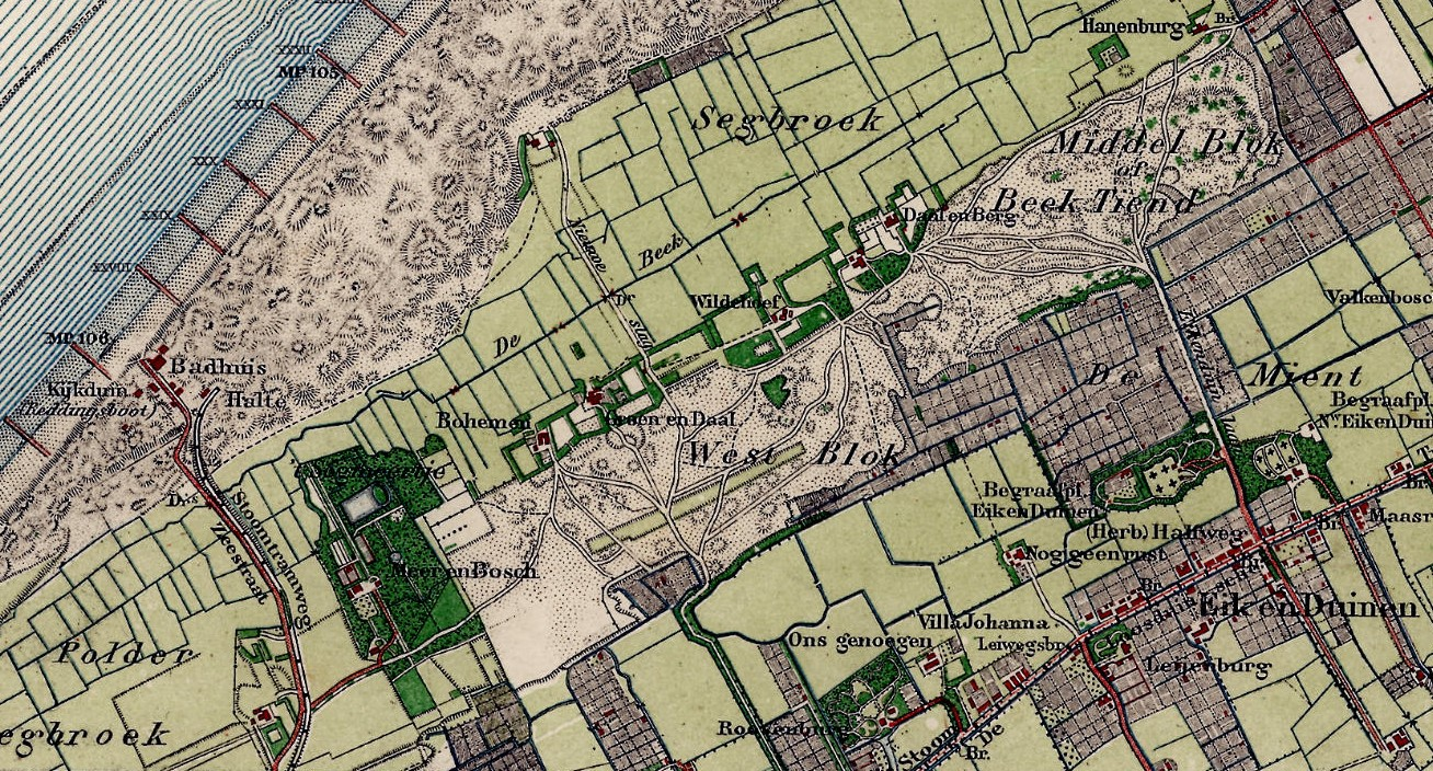 Topographic map from 1898 with Bohemen farm on the Kijkduin-Eikenduinen line.